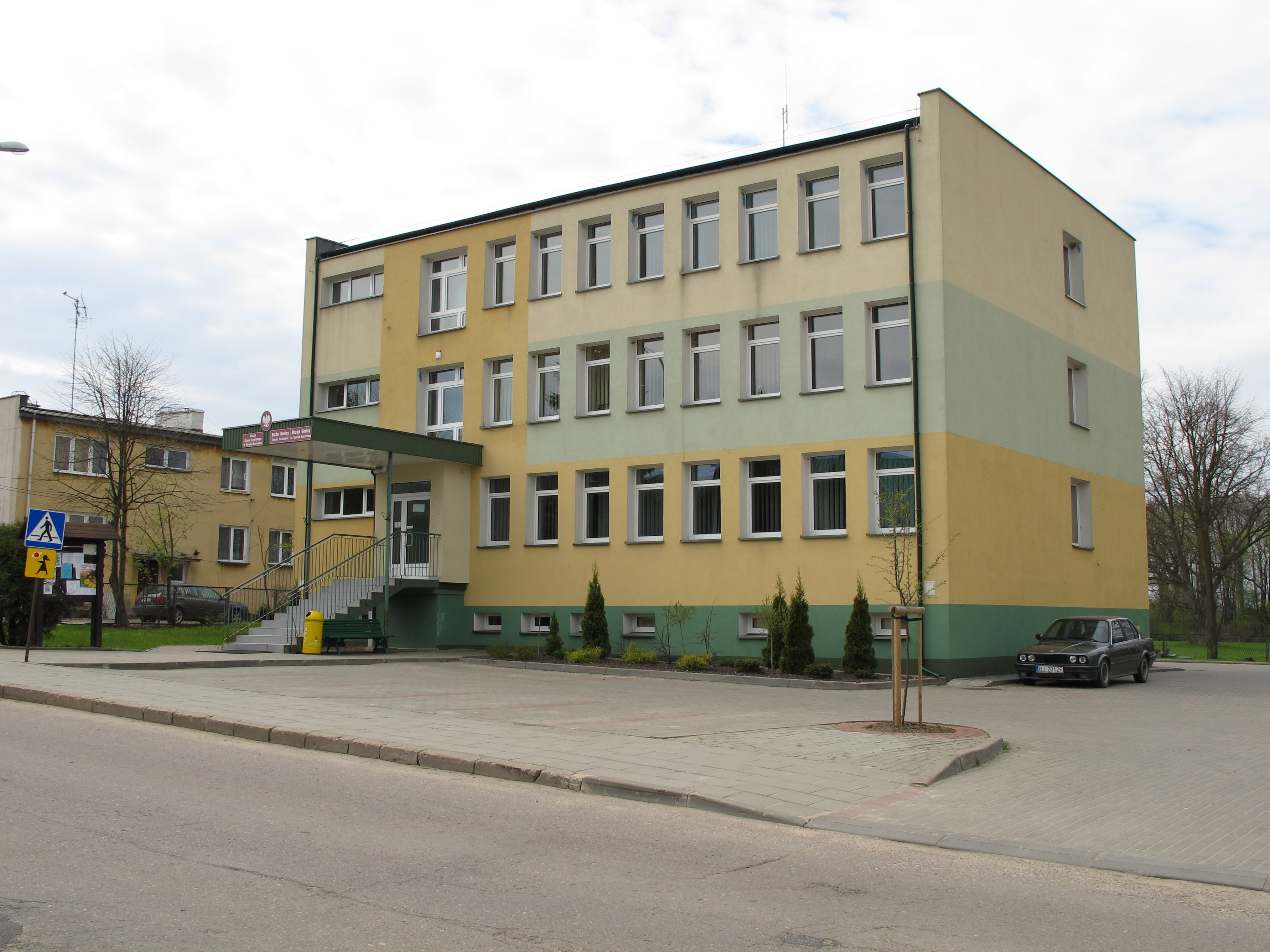 Gmina's head office building at Turośń Kościelna village, gmina Turośń Kościelna, podlaskie, Poland